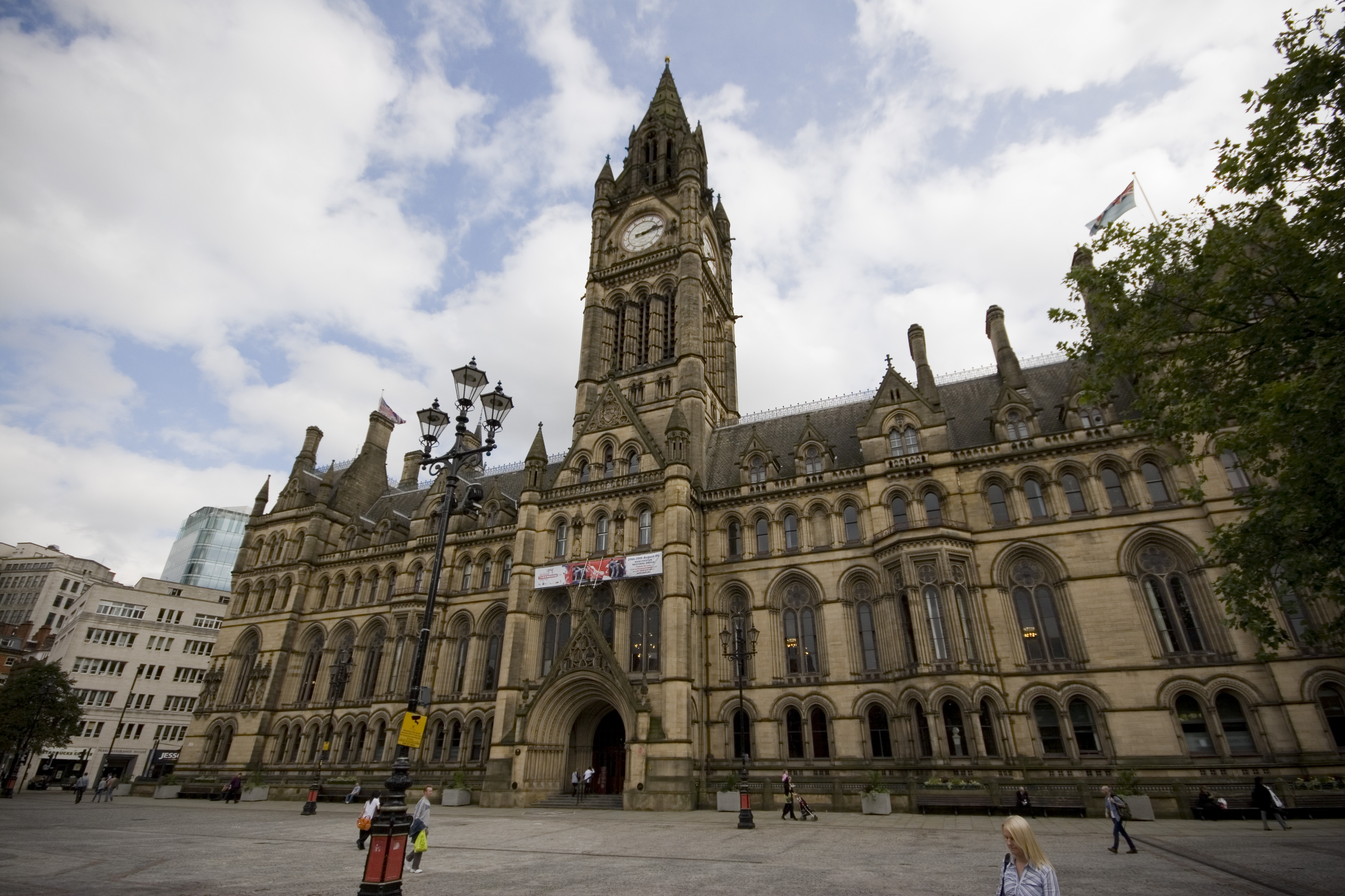 A wide-angle shot of Manchester Town Hall, UK.